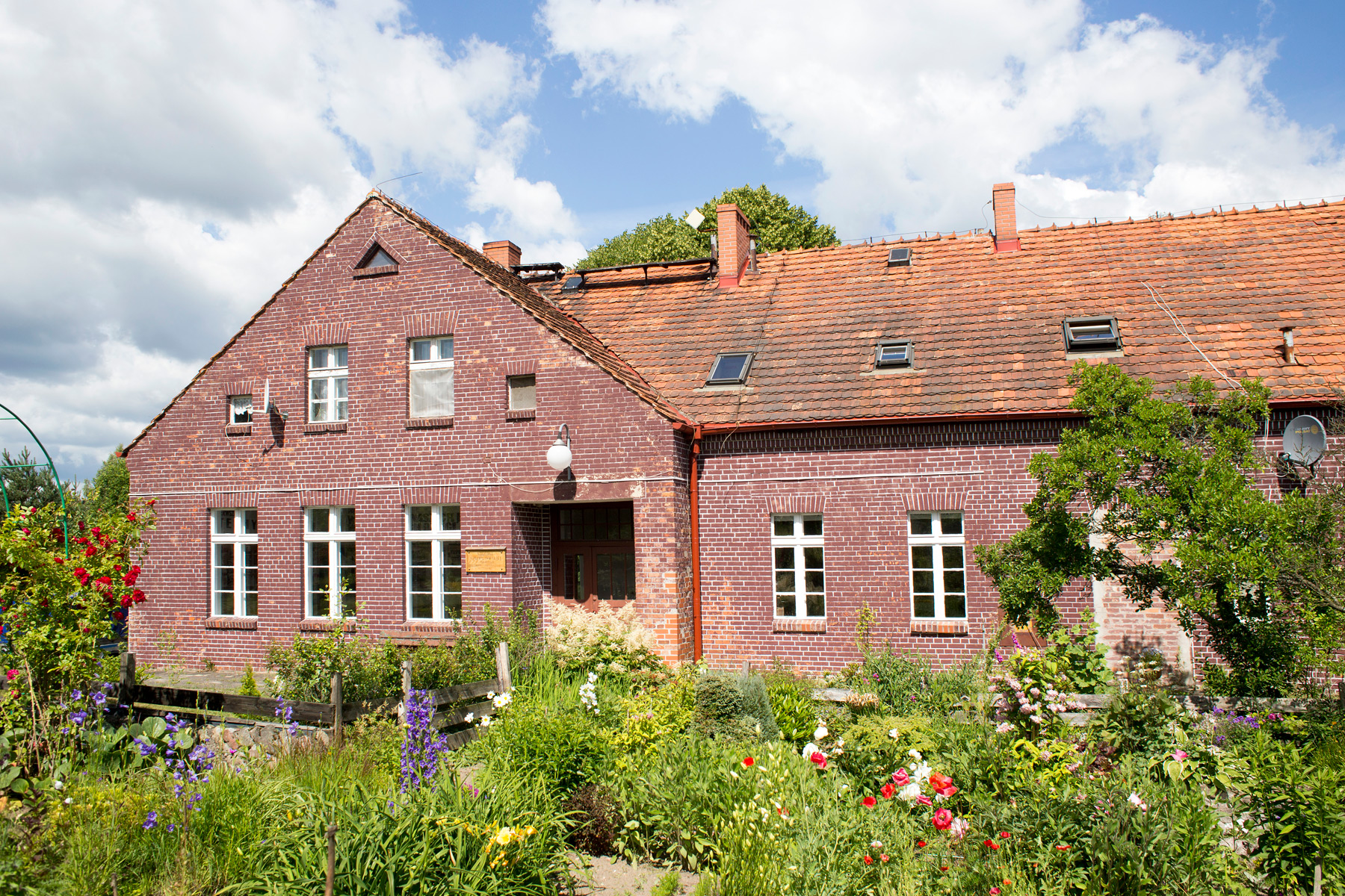 Outside view of the museum